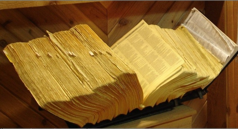 Picture of a Phonolog in Gatlinburg, TN